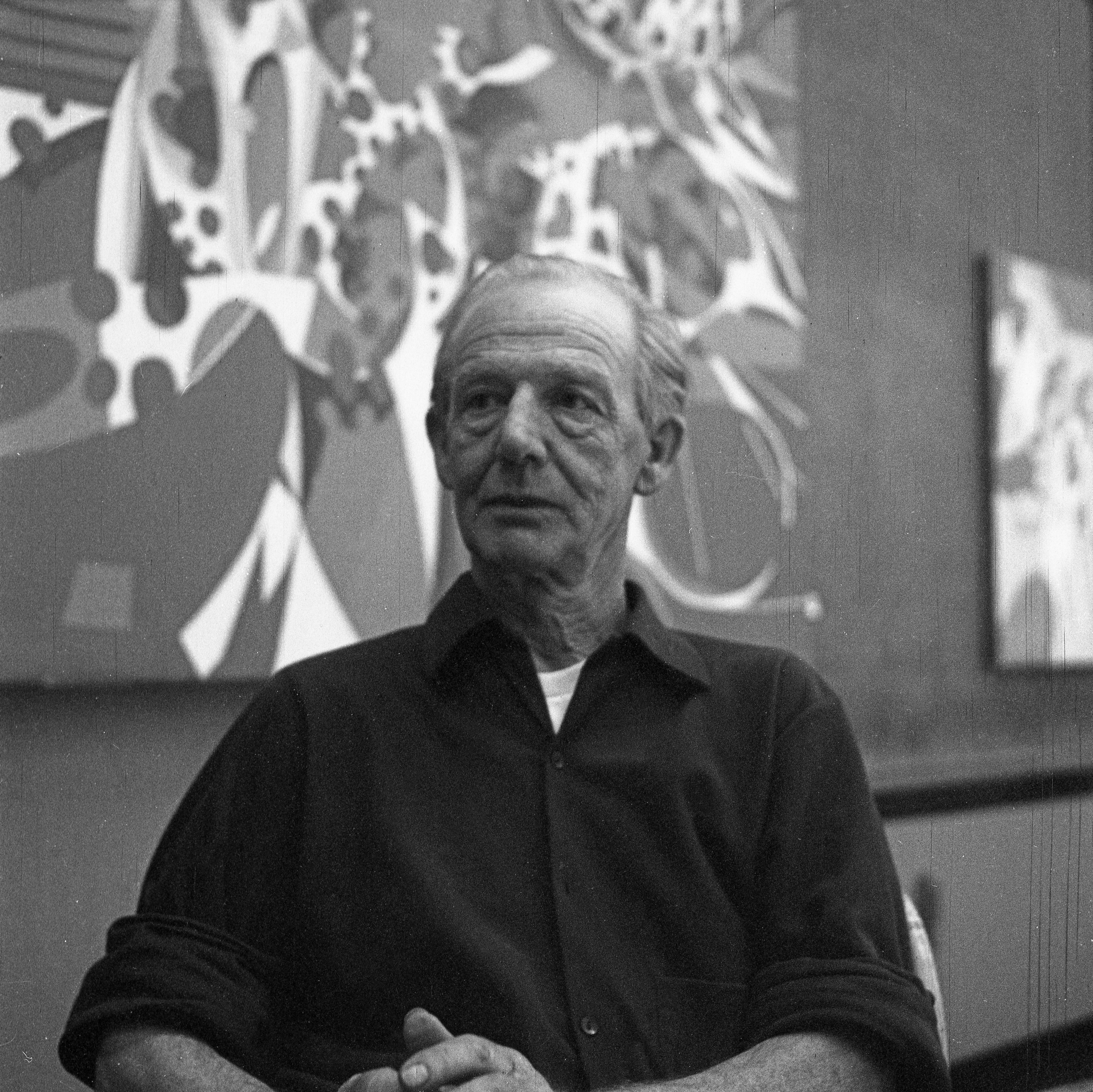 Format: 120 mm sort/hvitt negativ Dato / Date: 1970 Fotograf / Photographer: Eirik Sundvor (1902 - 1992) Sted / Place: Bergen, Hordaland Wikipedia: Arne Ekeland (1908 - 1994) Eier / Owner Institution: Trondheim byarkiv, The Municipal Archives of Trondheim Arkivreferanse / Archive reference: Tor.H43.B78.F16023